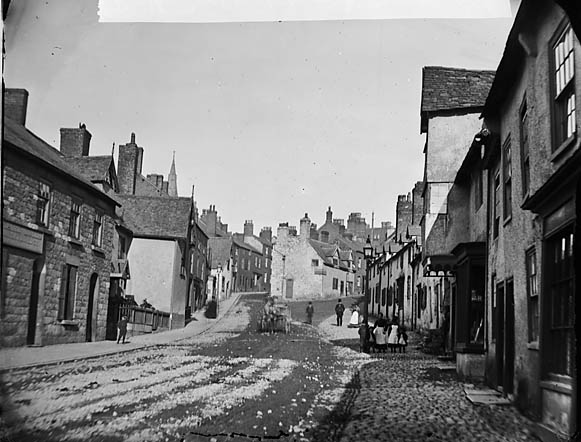 1 negative : glass, wet collodion, b&w ; 10 x 12.5 cm.